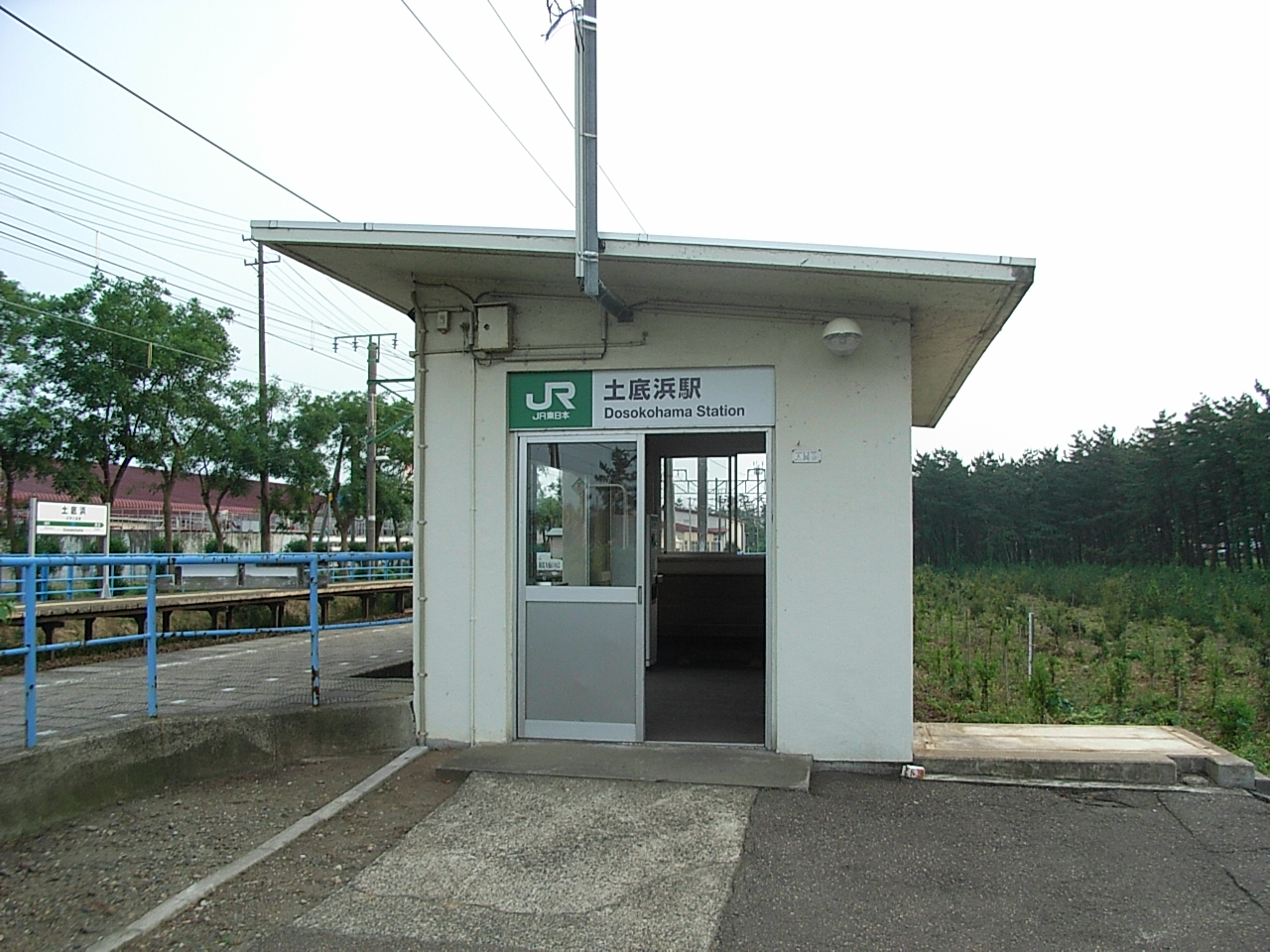 Dosokohama Station on JR Shin-etsu Line (1803, Dosokohama, Ogata-ku, Joetsu-shi, Niigata-ken, Japan)